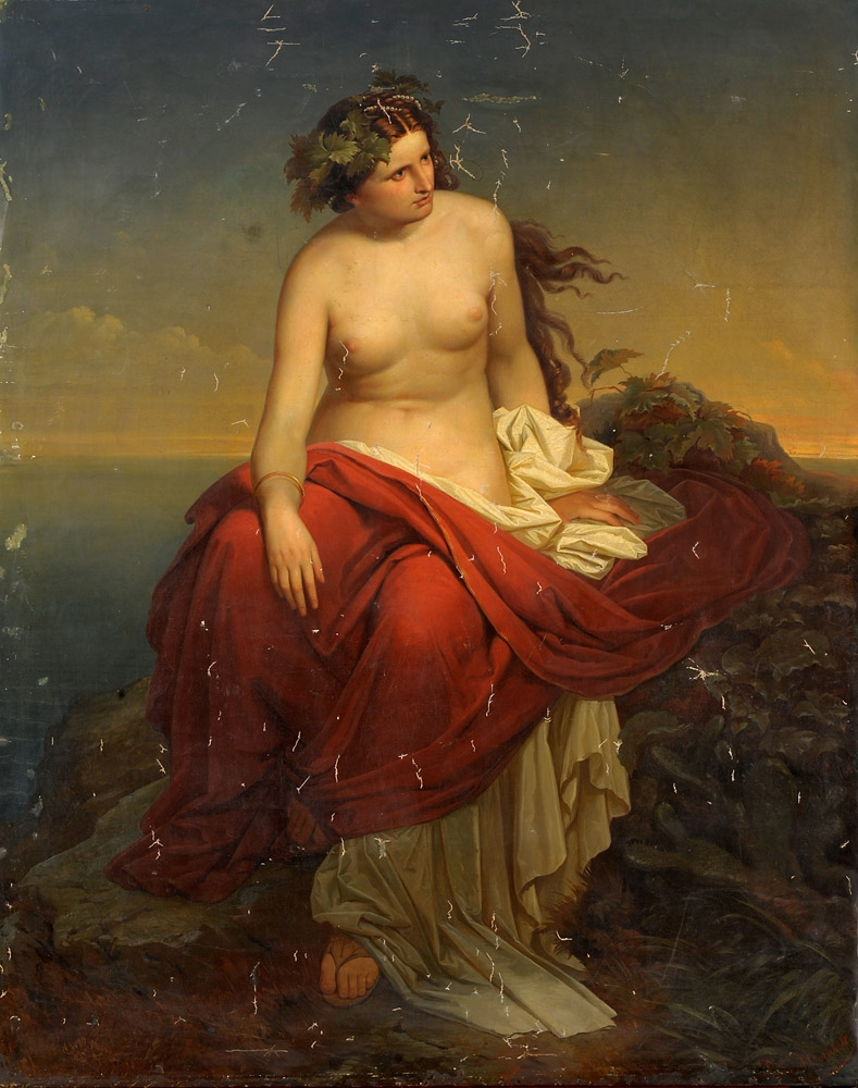 Inspired by opera with the same title.